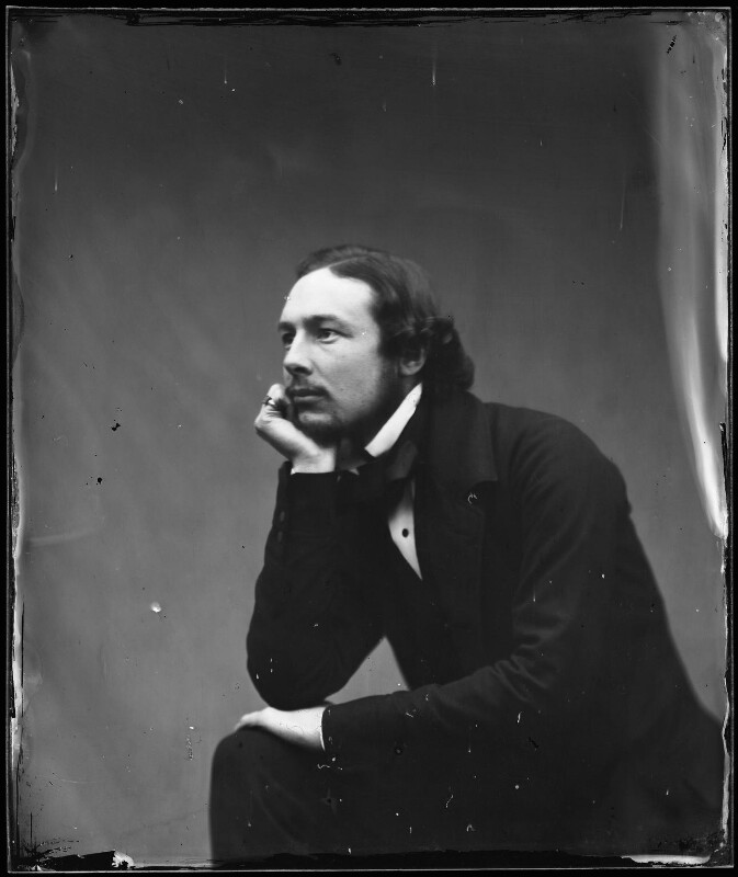 George Prince Boyle, collodion negative, 1850s